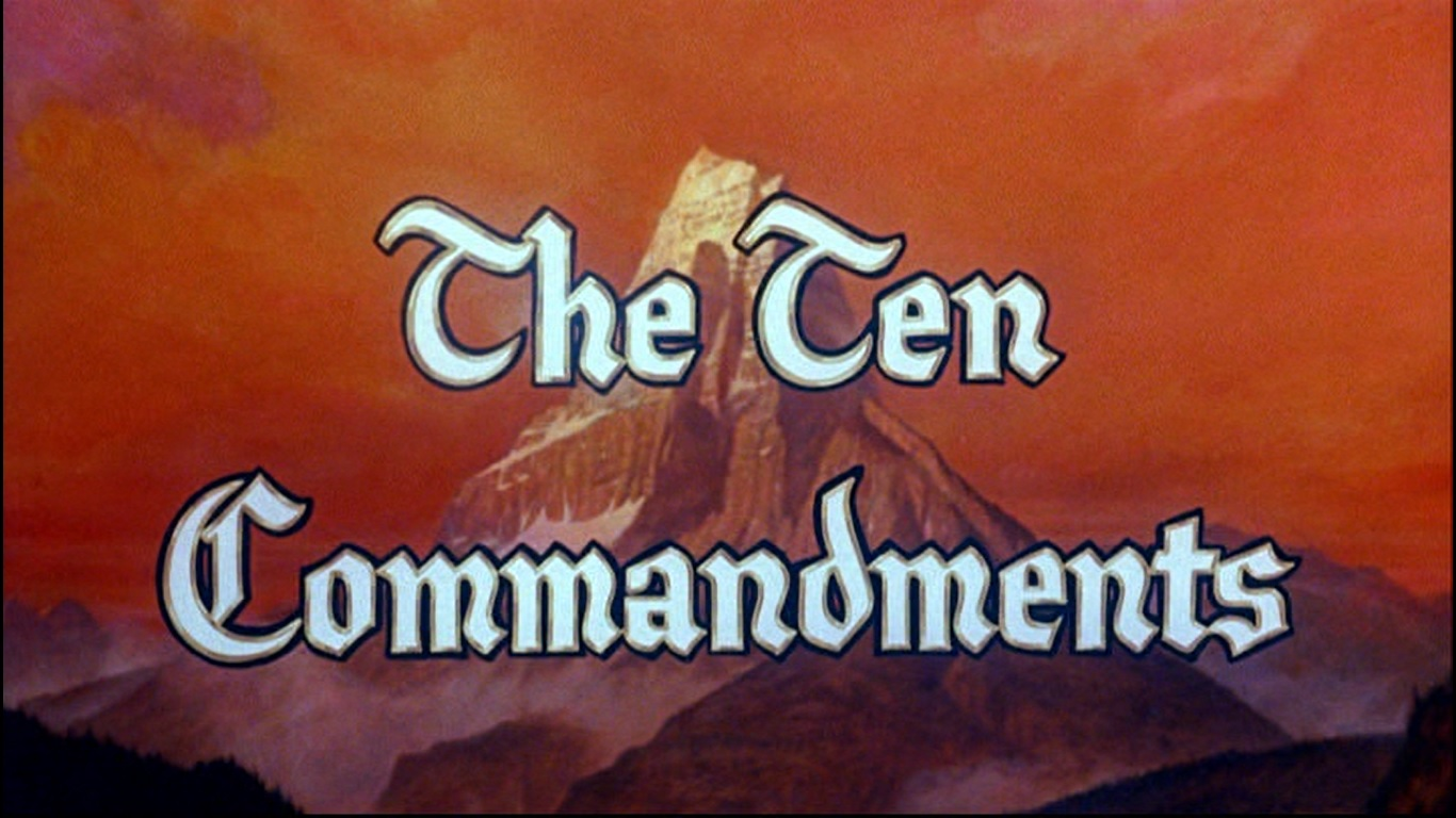 Screenshot from the trailer for the film The Ten Commandments.